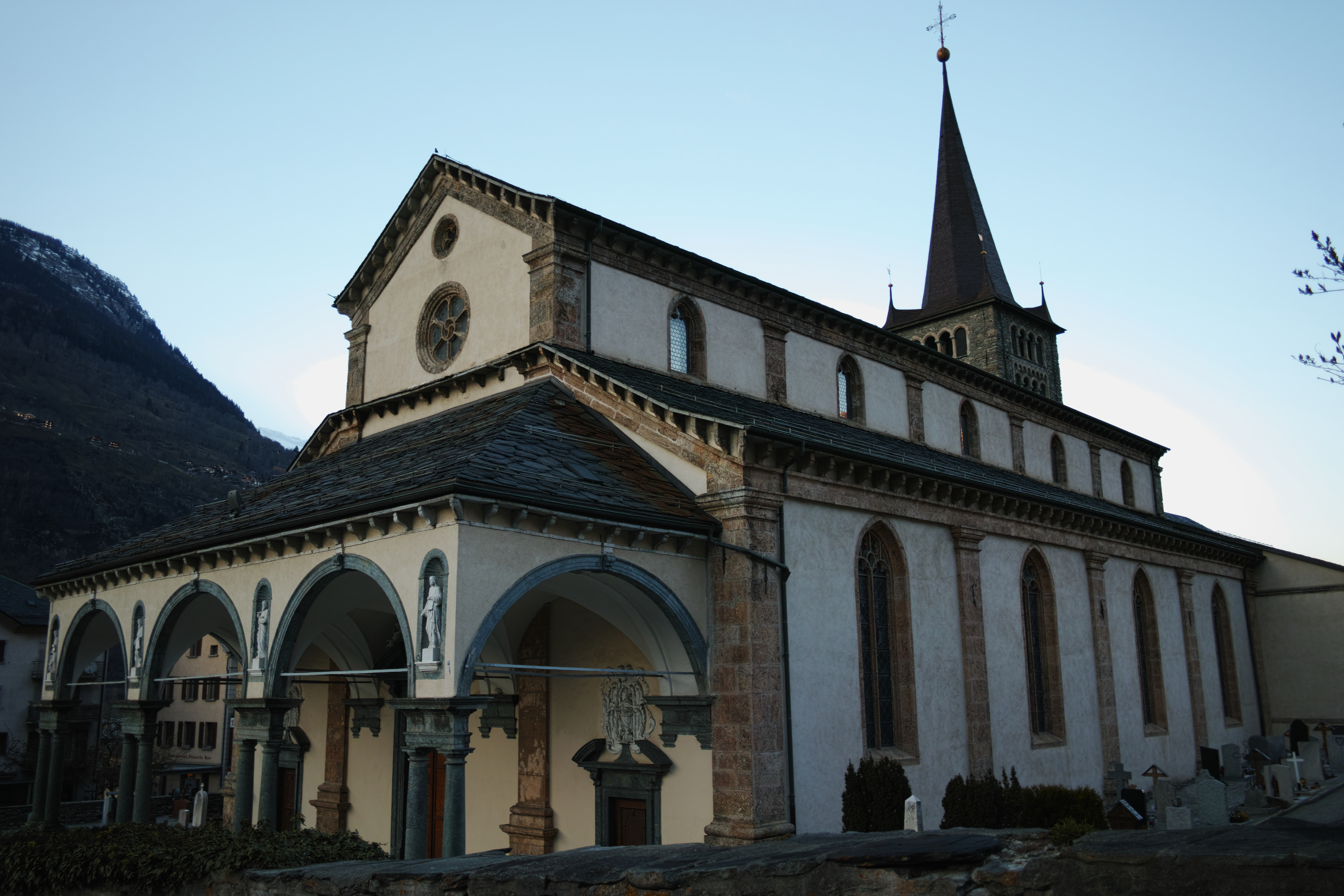 Church "Mariä Himmelfahrt" in Glis, municipality of Brig-Glis, Valais, Switzerland.